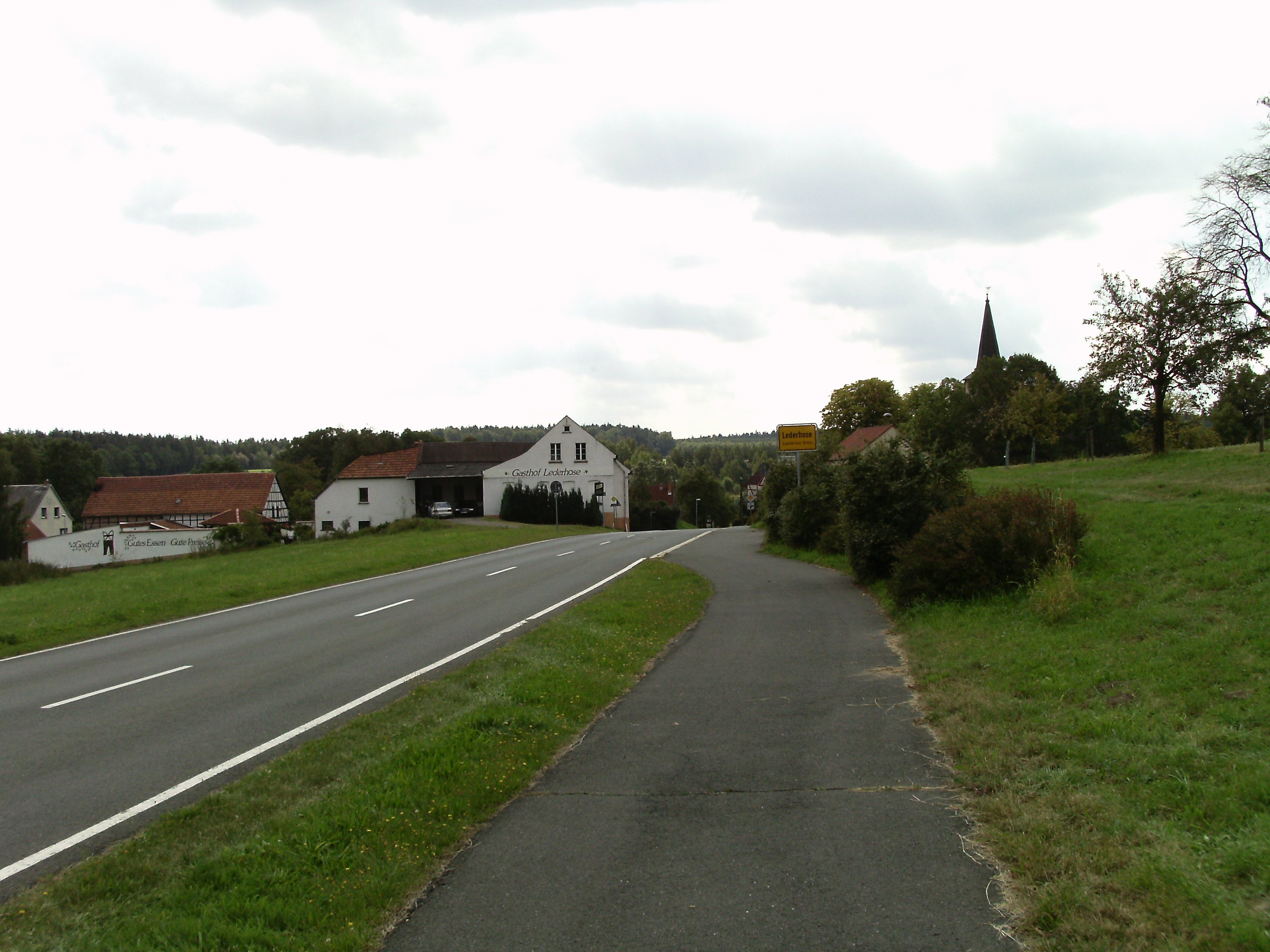 Entry to the village of Lederhose (Greiz district, Thuringia)